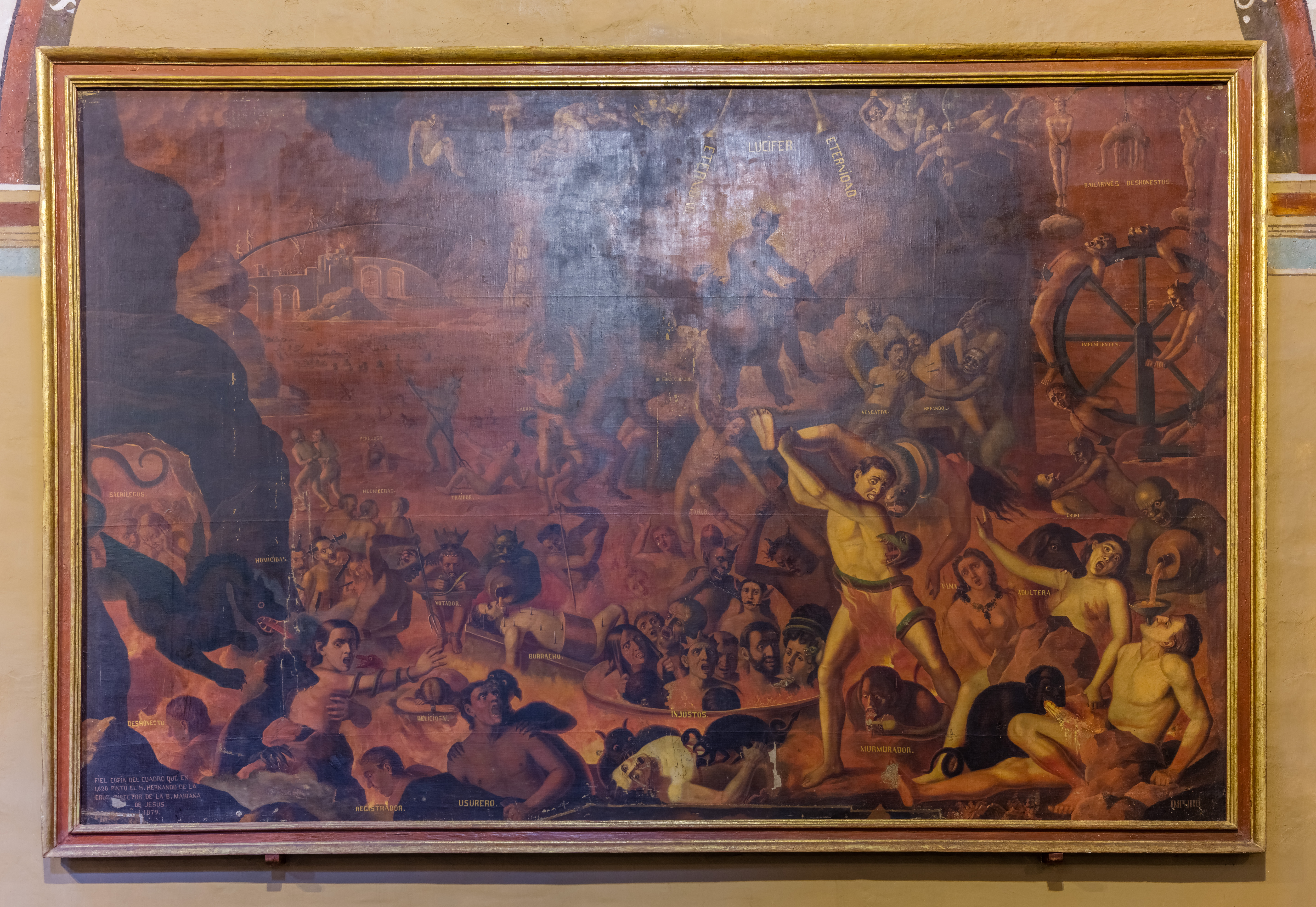 Painting of the Hell originally painted by Hernande de la Cruz in 1620 but replaced by this copy of Alejandro Salas (1879). Church of the Society of Jesus, Quito, Ecuador